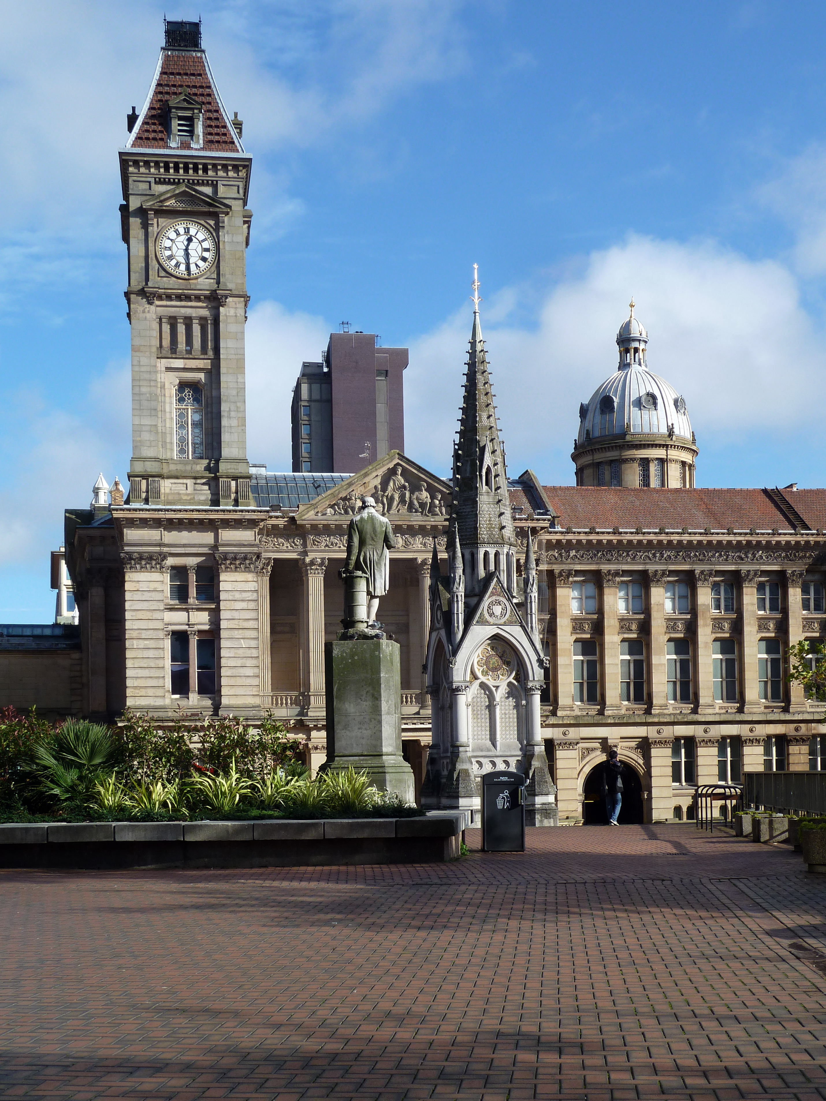 Birmingham Museum and Art Gallery in Chamberlain Square.